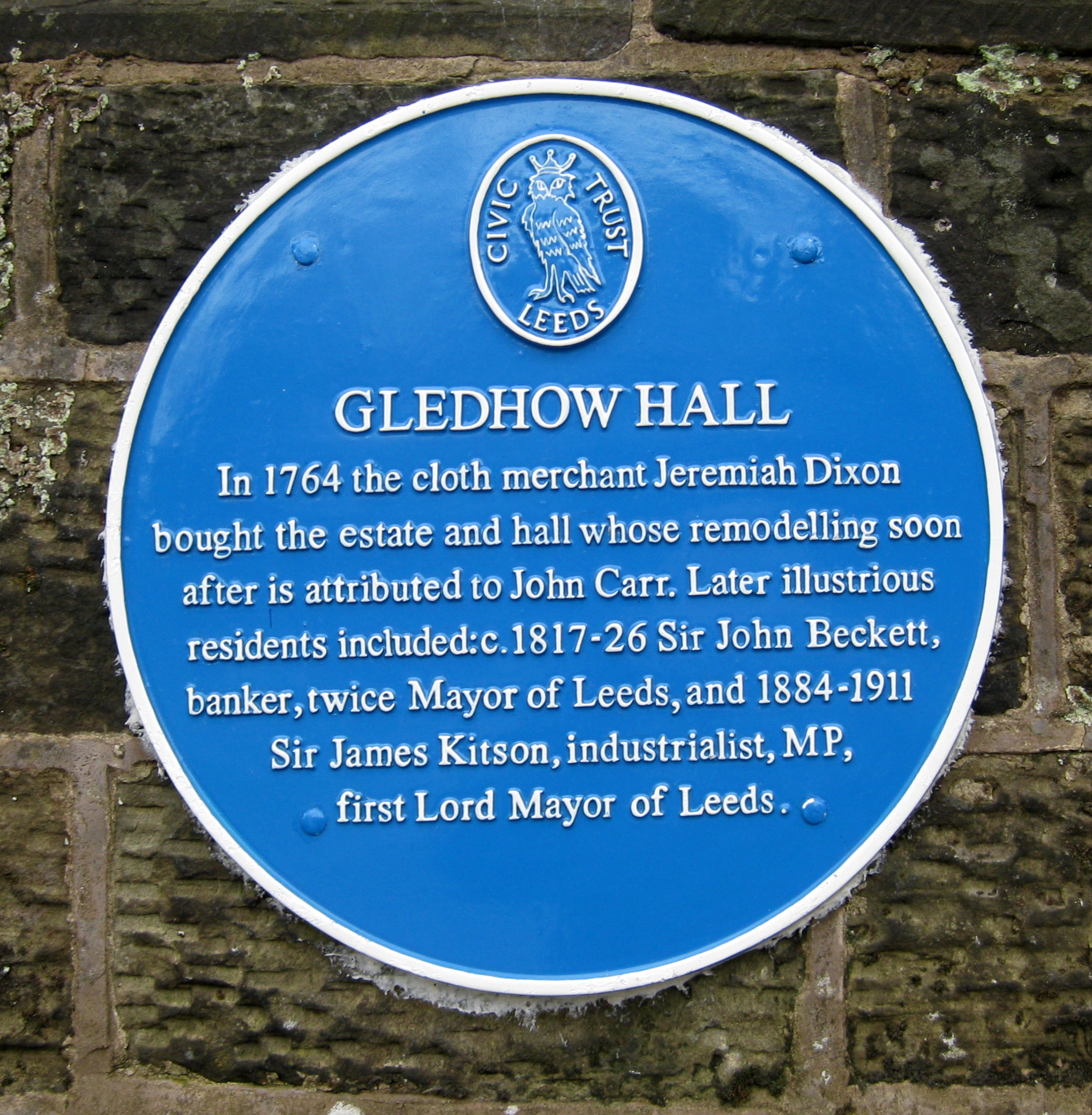 Blue plaque on Gledhow Hall,18th century mansion in Gledhow Leeds. Grade II* listed building